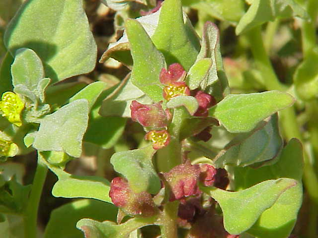 Species: Tetragonia echinata Family: Tetragoniaceae Image No. 2